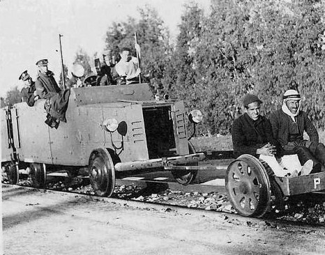 A British armored railroad wagon behind a railcar on which two Arab hostages are seated, 1936-1939 Arab Revolt